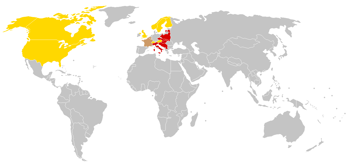 Countries with at least one gold medal Countries with at least one silver medal Countries with at least one bronze medal Countries that didn't get any medal Countries that did not participate